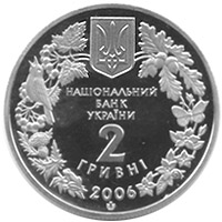 Coin of Ukraine